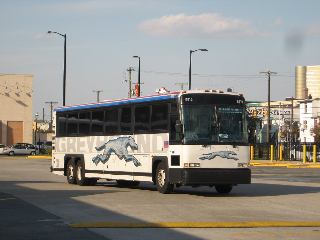 Greyhound Lines #6610 in Atlantic City, NJ, finishing Schedule #8513.